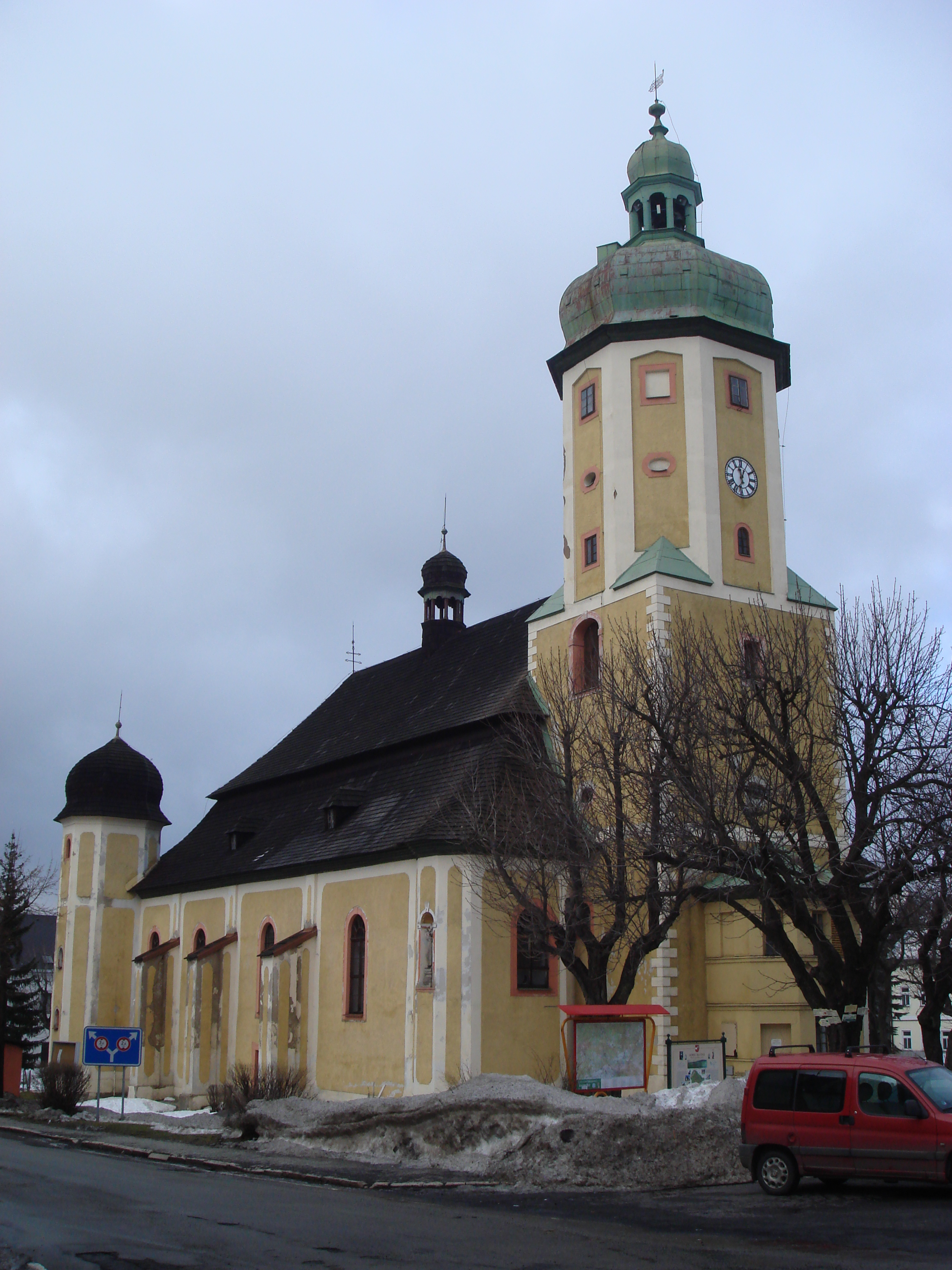 Church of Saint Lawrence in Horní Blatná (Karlovy Vary Region, Czechia).